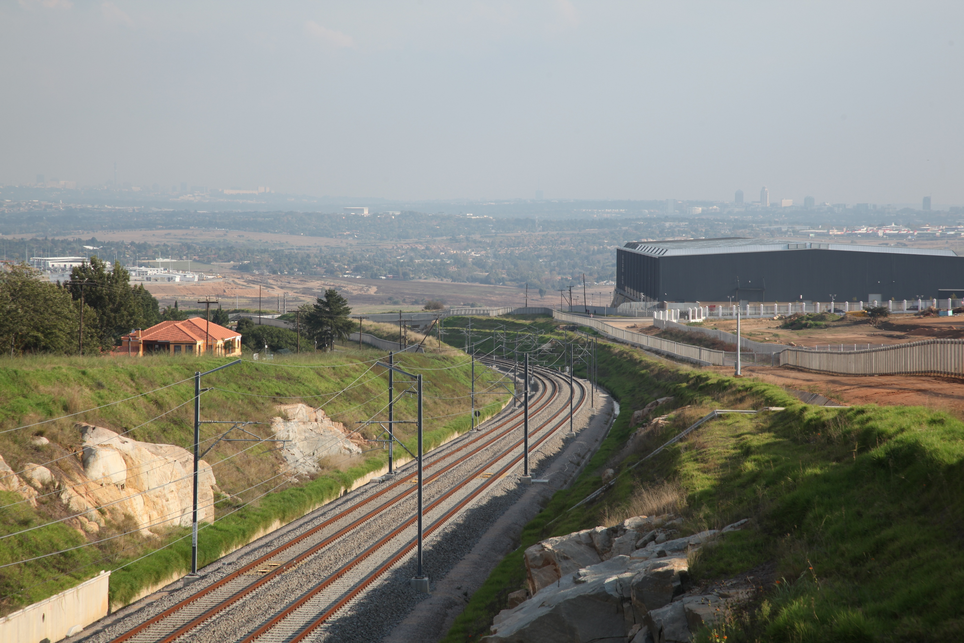 Gautrain rails passing through Midrand